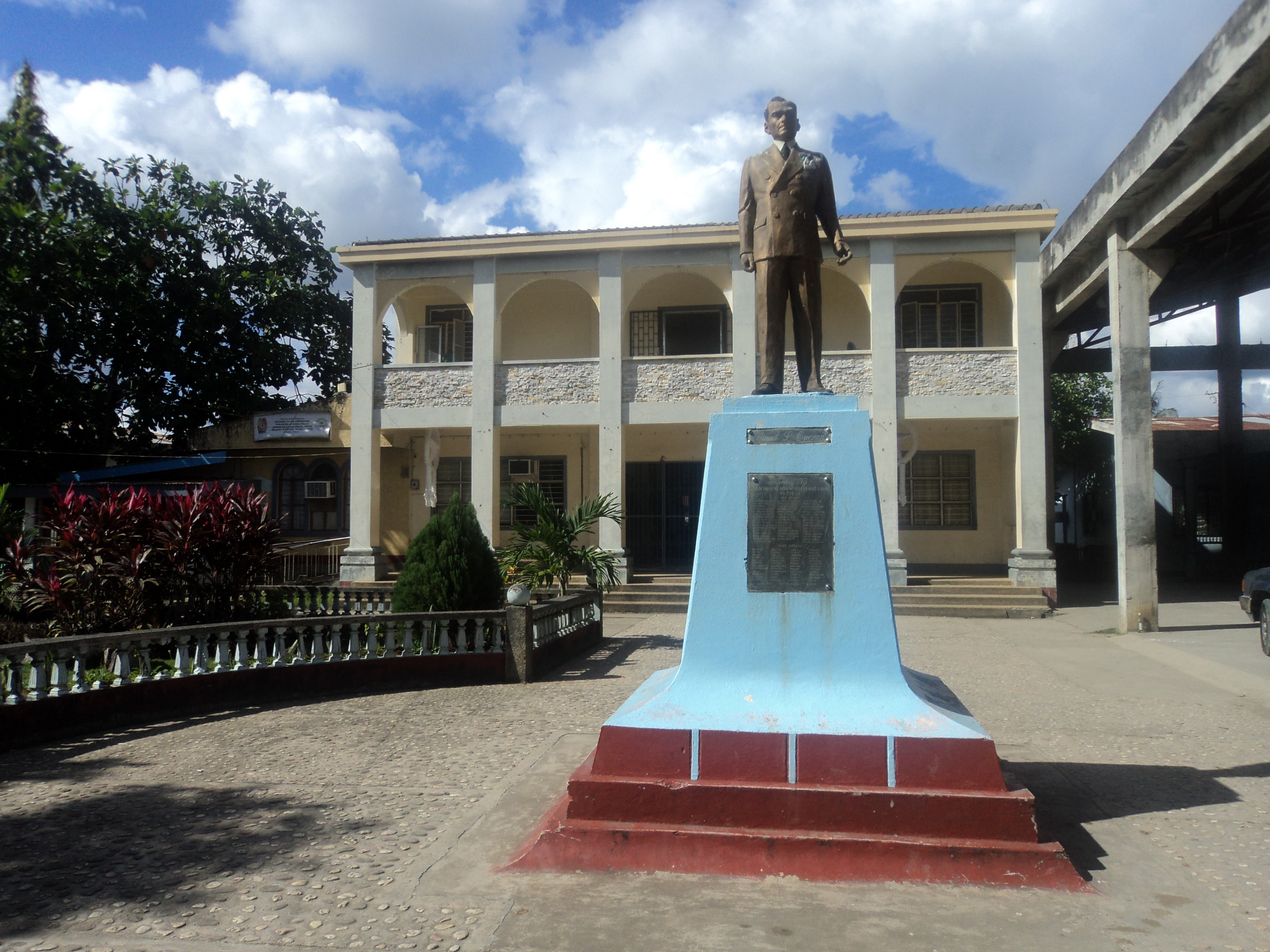 Monument of Manuel L. Quezon in front of the town hall of Mulanay, Quezon